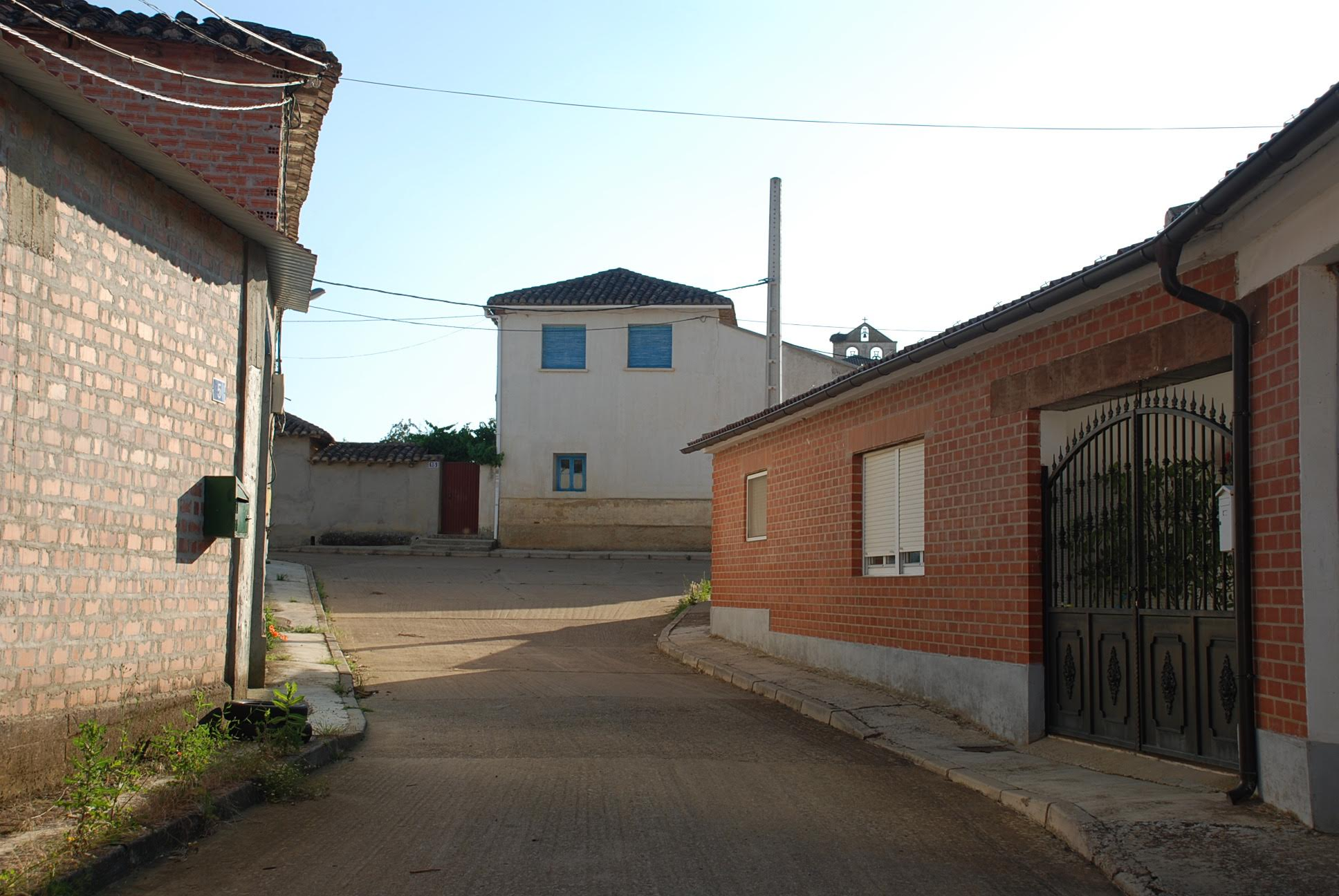 Cantarranas street view in Villamelendro de Valdavia (Palencia, Castile and León).